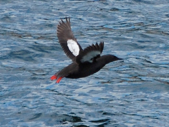 Black Guillemot flying over Frenchman Bay, viewed from the Acadia nature cruise.